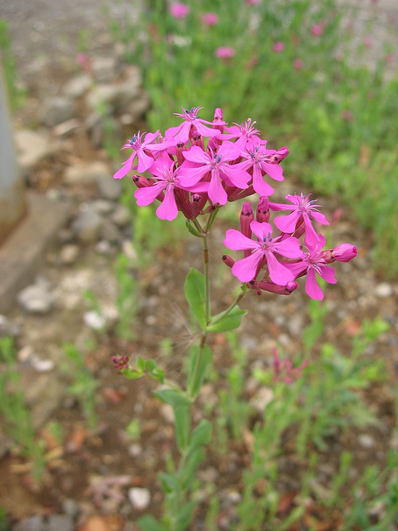 Photograph of Atocion armeria (Silene armeria), taken in Tama city, Tokyo, Japan. Resized.